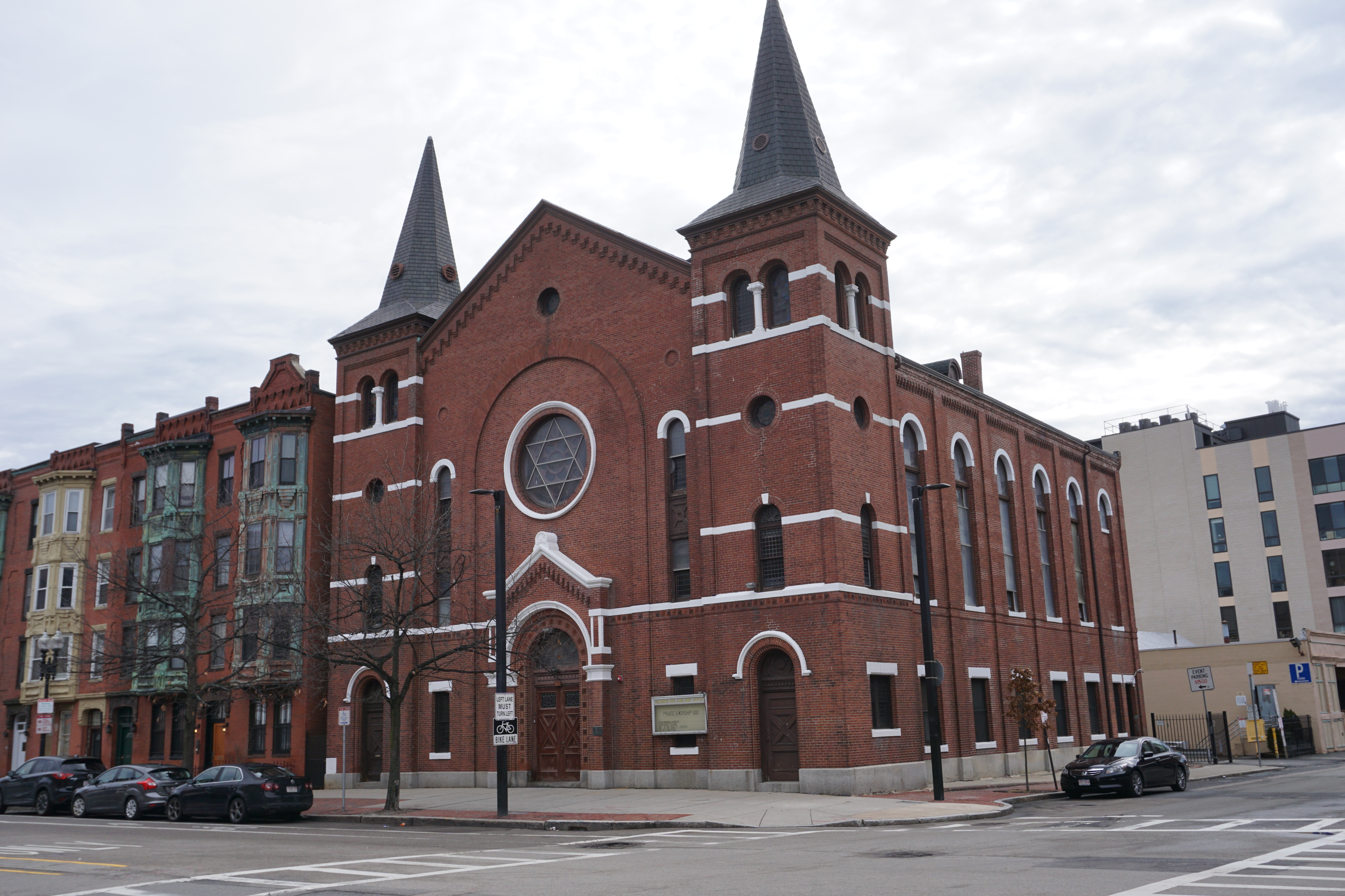 600 Columbus Avenue in Boston, Massachusetts (USA) on Feb 12 2018. Home of Temple Israel from 1885-1906.